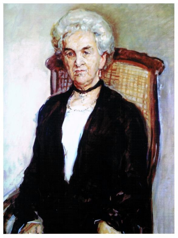 Gemälde von Max Slevogt - Portrait of Ida Boy-Ed - writer and patron of the arts